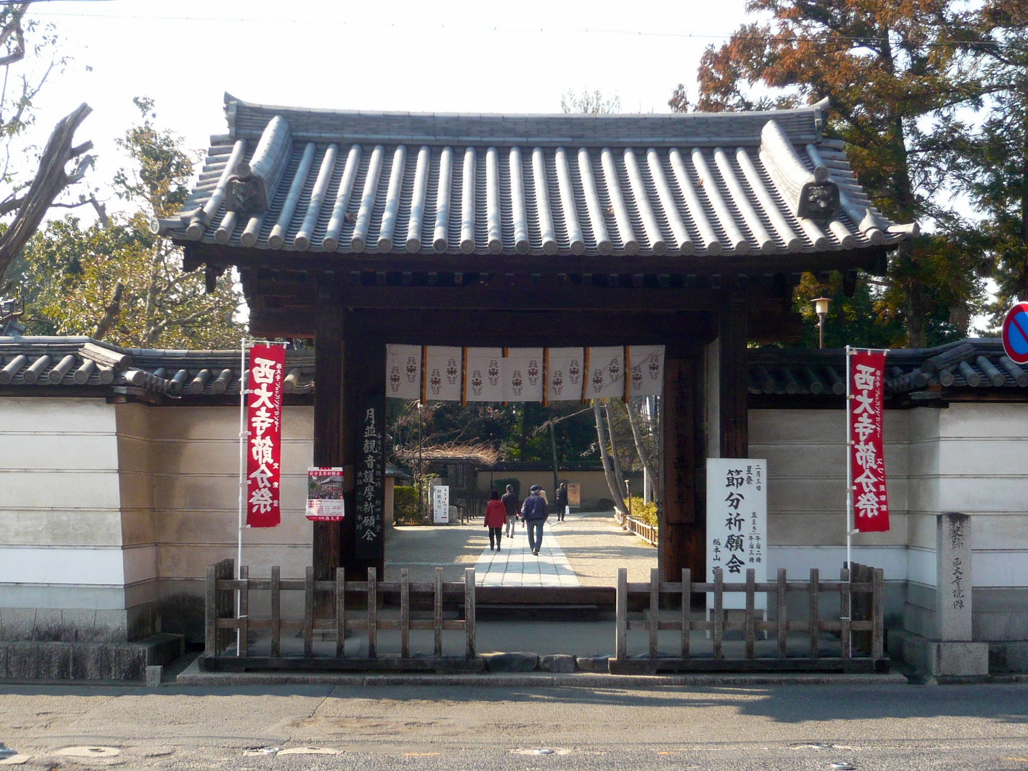 西大寺東門 East gate of Saidaiji 2011.2.03